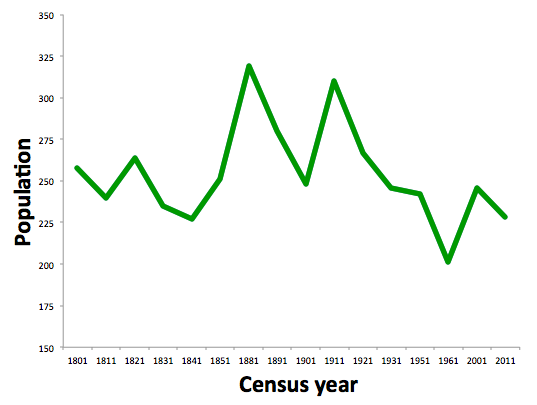 time series graph